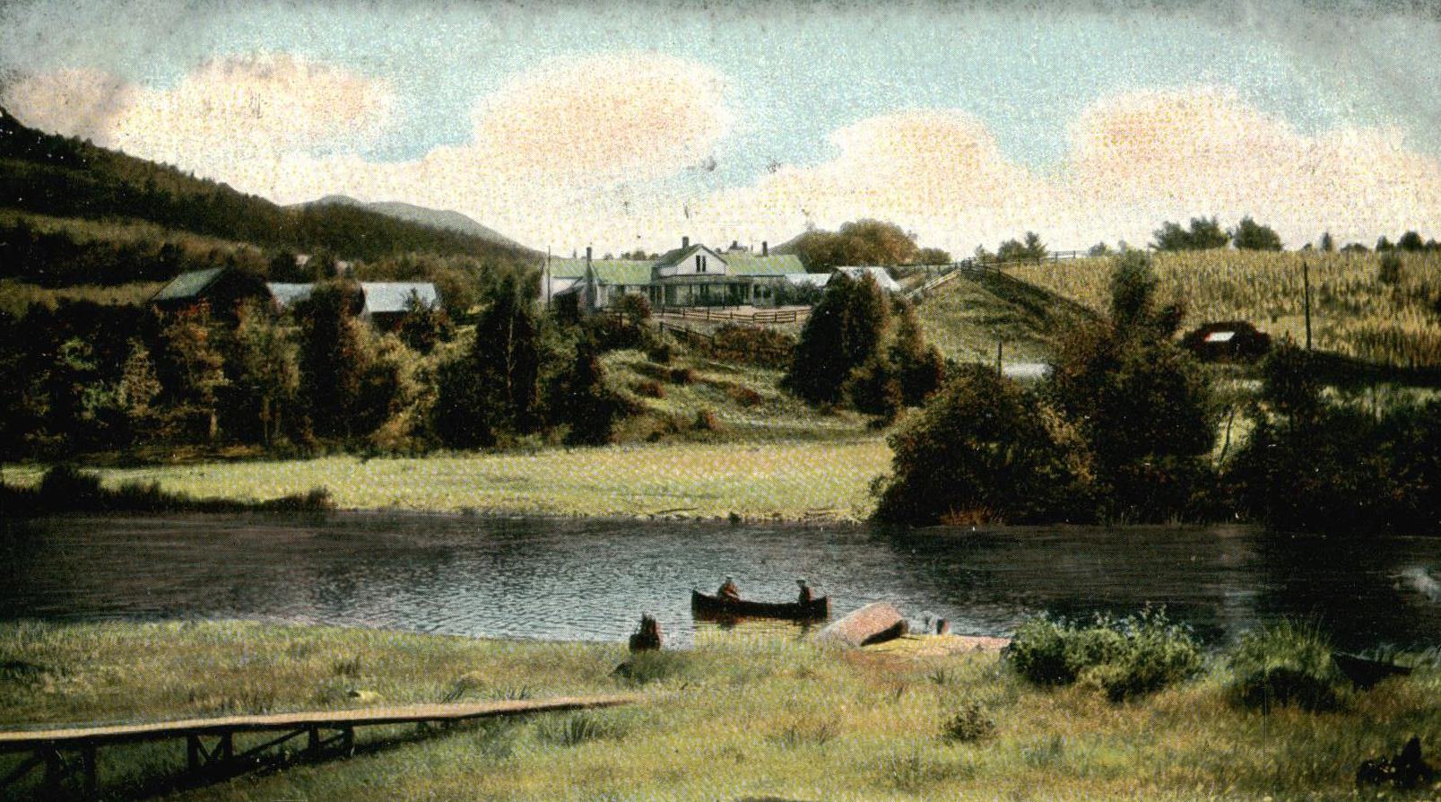 Robert Louis Stevenson House, Adirondacks. See Cure Cottages of Saranac Lake